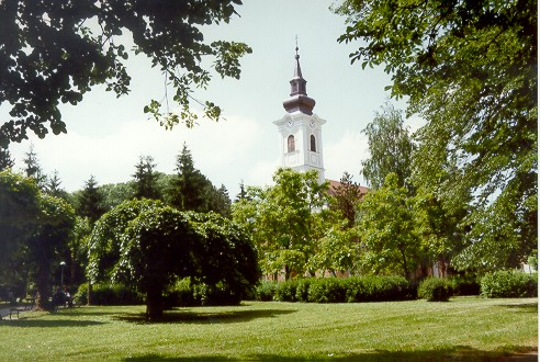 Park in Petrinja, Croatia